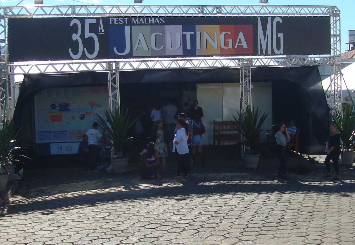 Knitting trade fair in Jacutinga, Minas Gerais, Brazil